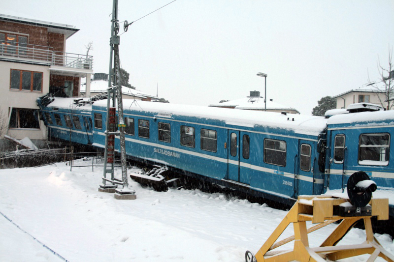 The train on Saltsjöbanan that crashed into a house the 15th of january.